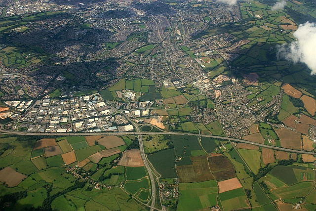 M5 junction 29 near Exeter Here the A30 from the east (bottom of the photo) passes under the M5 on the outskirts of Exeter. The Sowton industrial estate (to the left of the picture takes advantage of the excellent access routes of the motorway and dual carriageway. Taken from an aeroplane somewhere above Clyst Honiton.